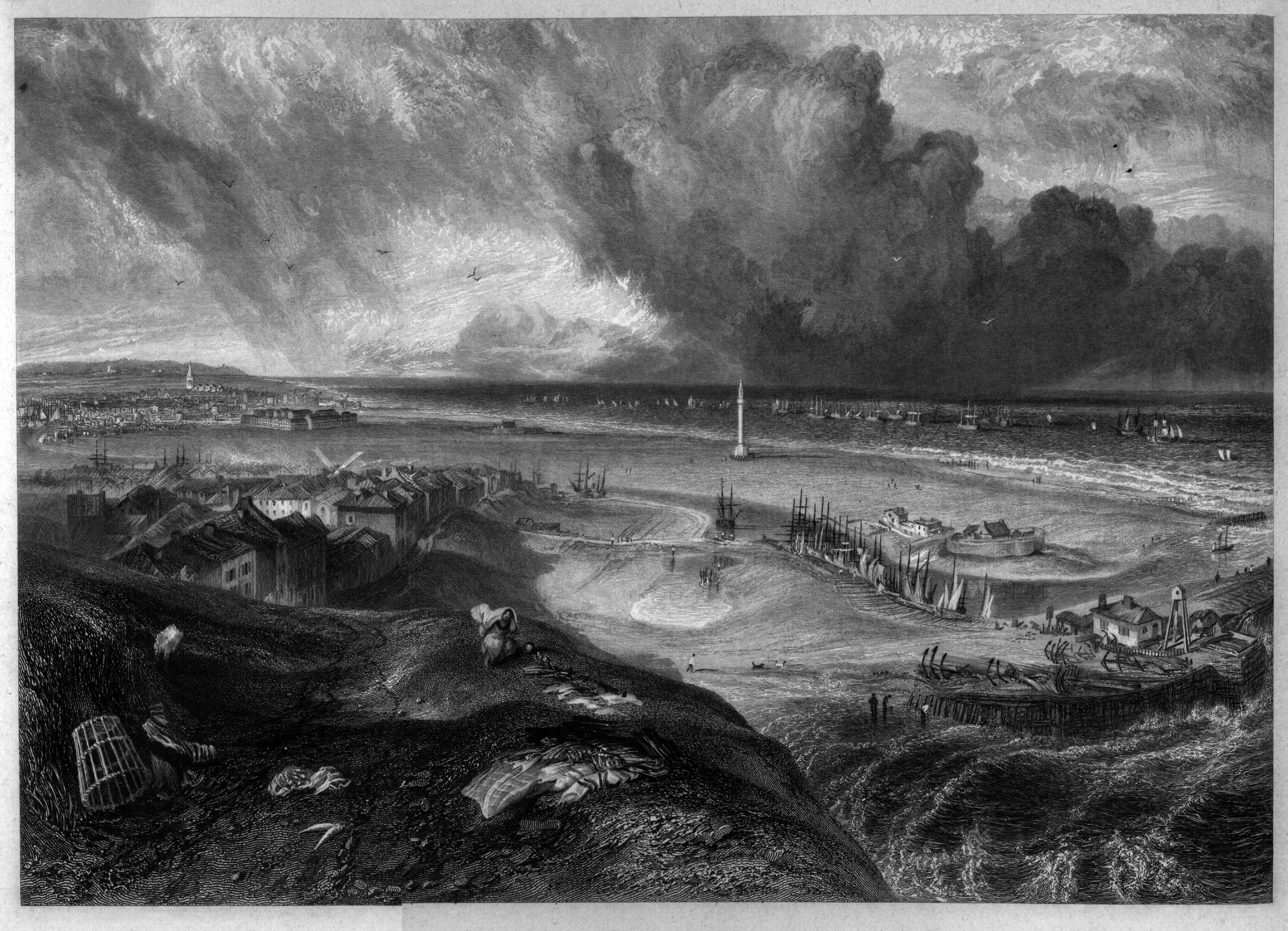 Great Yarmouth, Norfolk engraving by William Miller after J M W Turner, published in Picturesque Views in England and Wales. From Drawings by J.M.W. Turner, engraved under the superintendence of Mr. Charles Heath with descriptive and historic illustrations by H.E. Lloyd. London: Longman, Orme, Brown, Green, and Longmans, 1838, Rawlinson 234